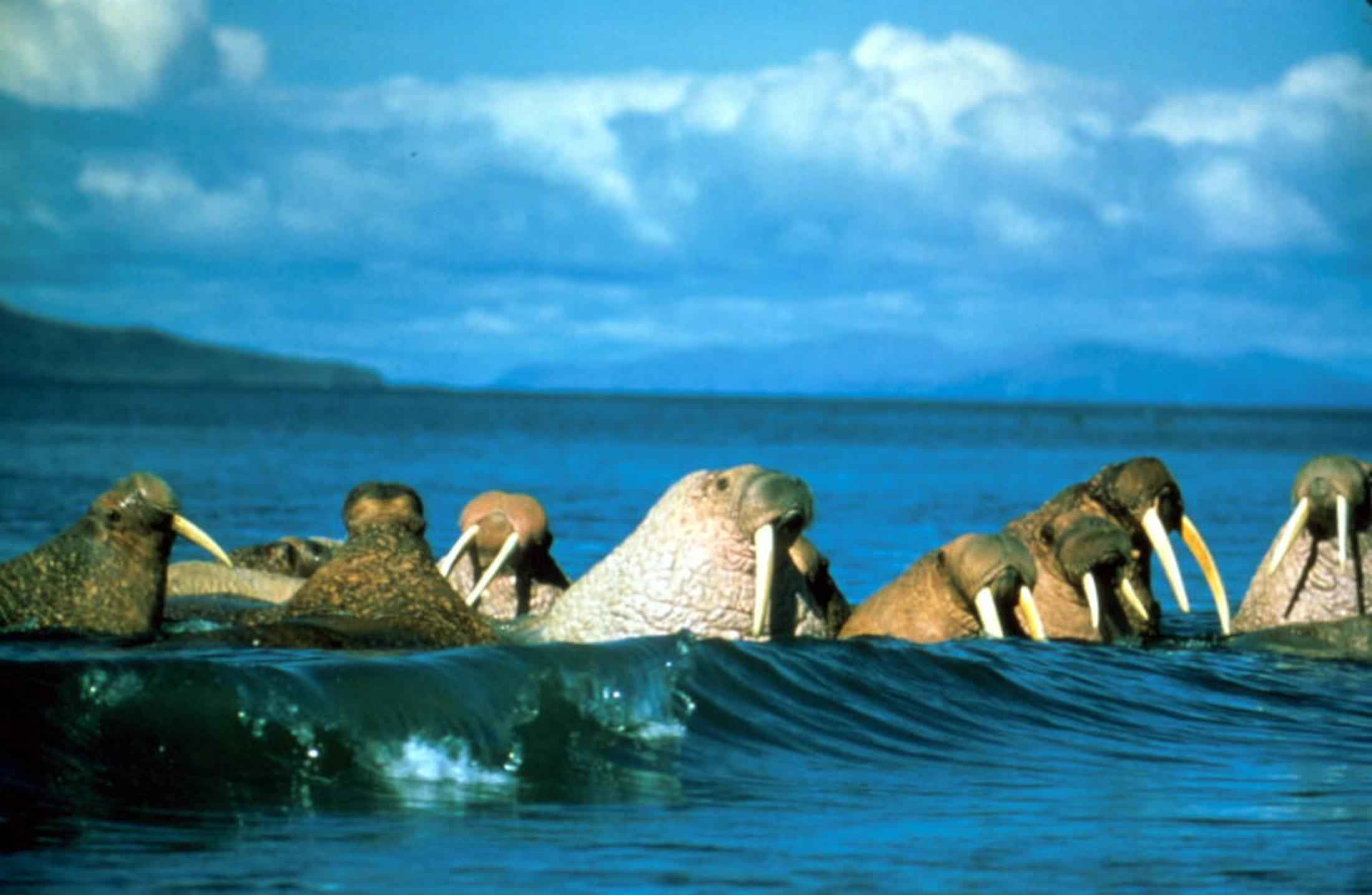 Image title: Walruses on waves Image from Public domain images website